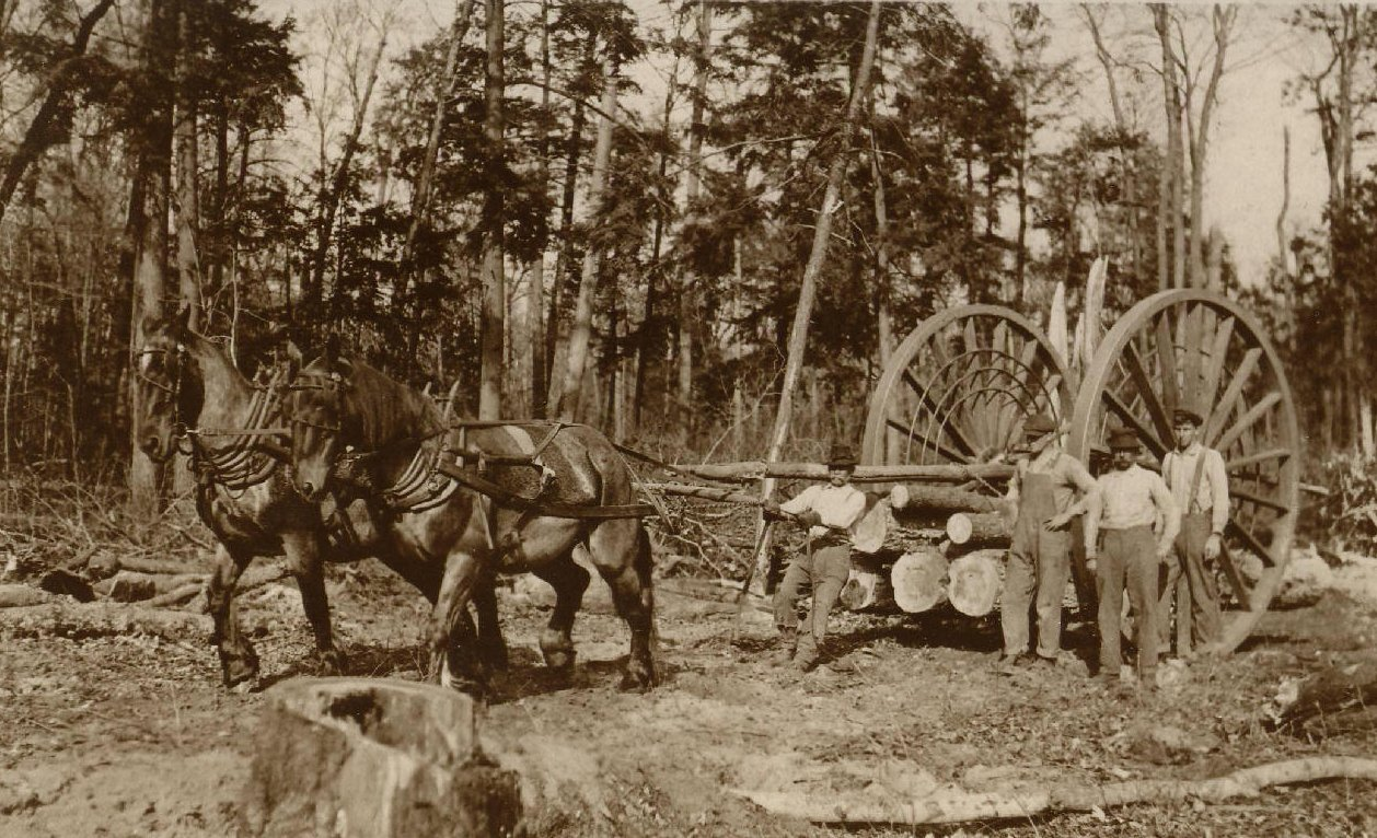 Michigan logging wheels